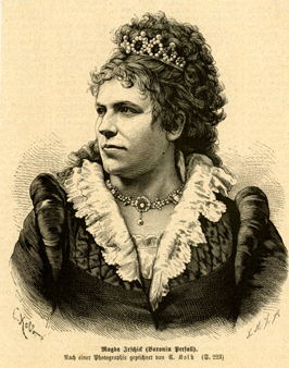 German actress Magda Irschick, also known as Baroness von Perfall (1847—1935)